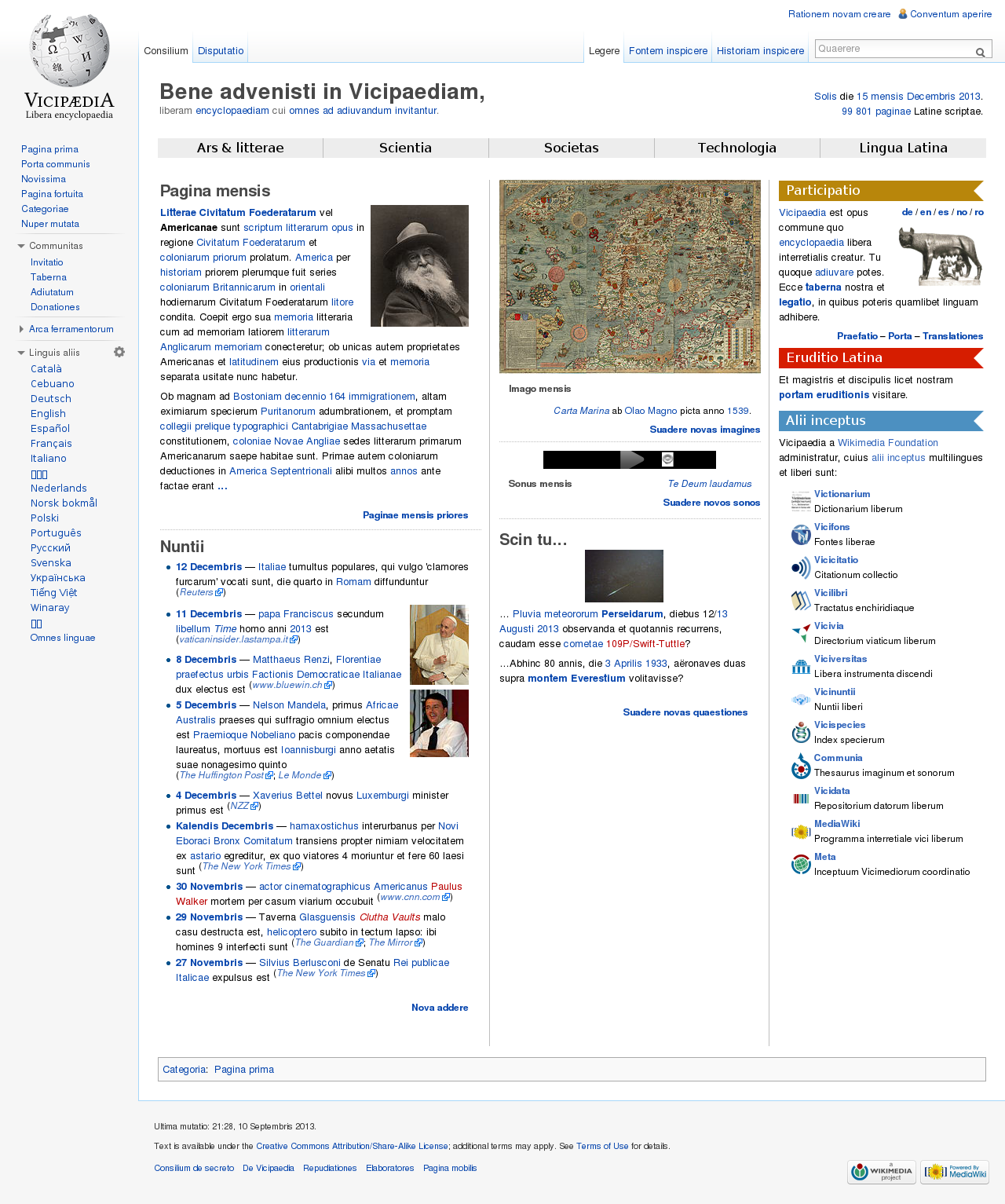 Screenshot of the main page of Latin Wikipedia, taken on December 15, 2013